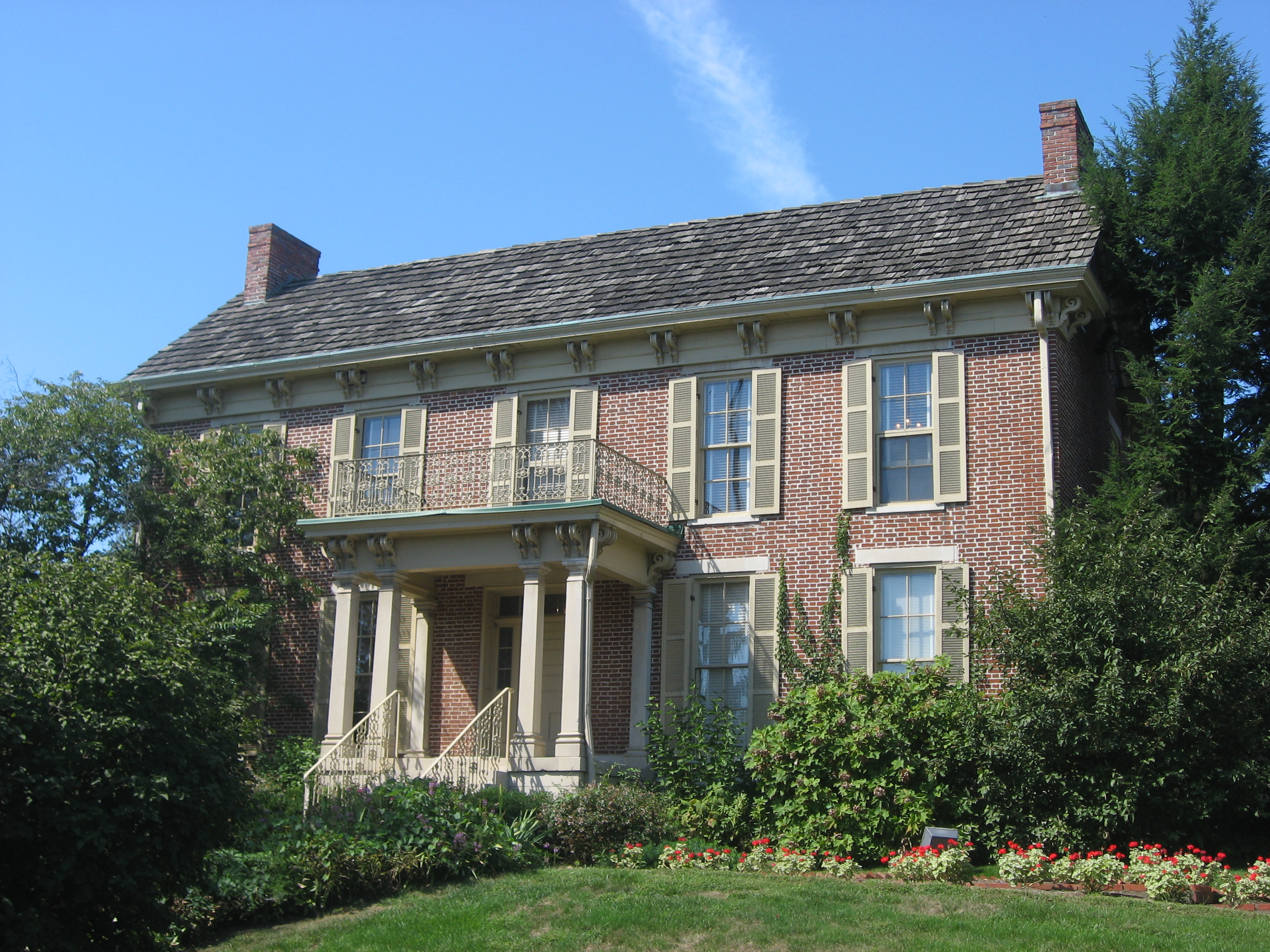 Front of the Cochran-Helton-Lindley House, located at 405 N. Rogers Street in Bloomington, Indiana, United States. Built in 1849, it is listed on the National Register of Historic Places, and it is part of a Register-listed historic district, the Bloomington West Side Historic District.